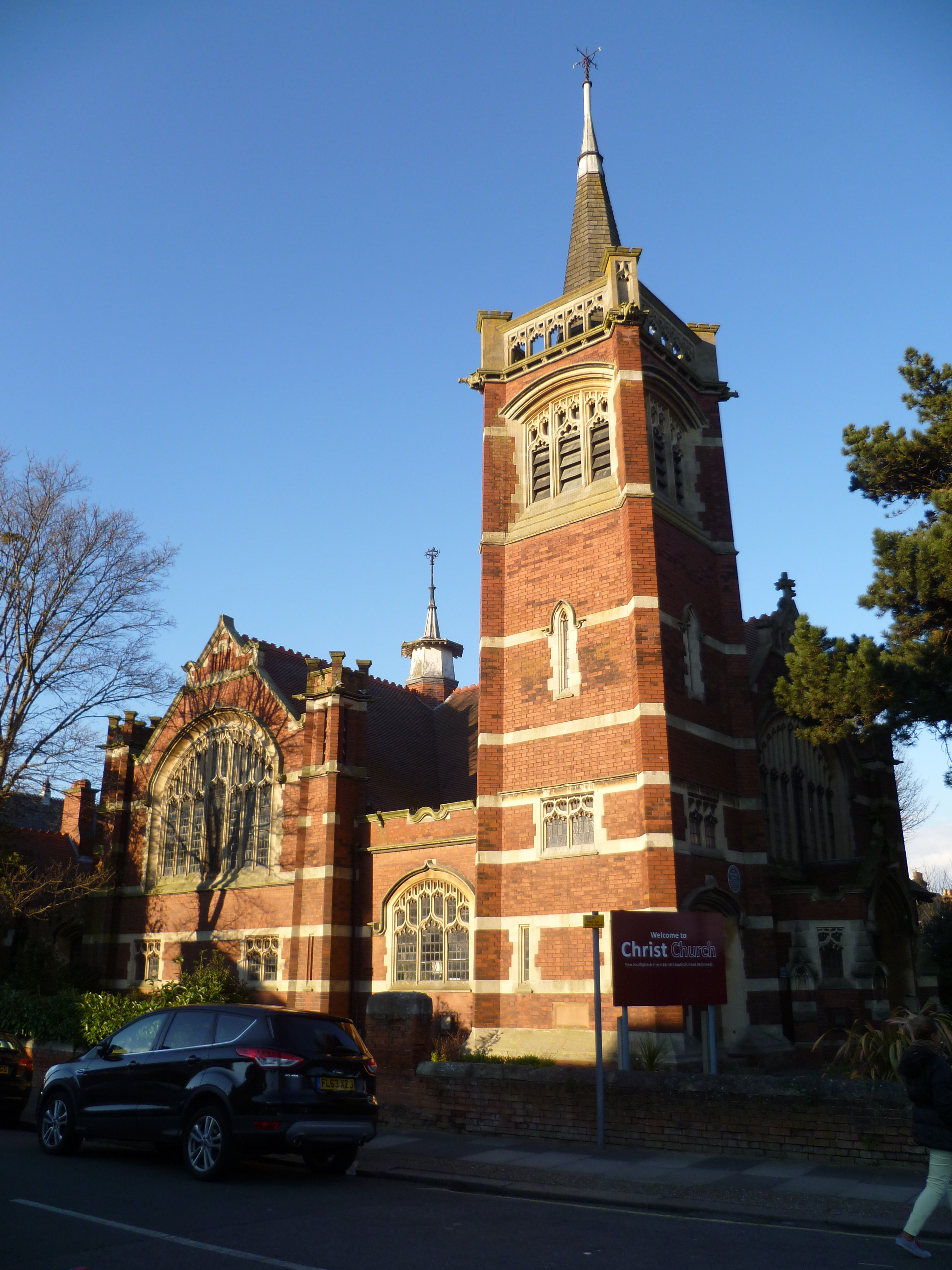 London